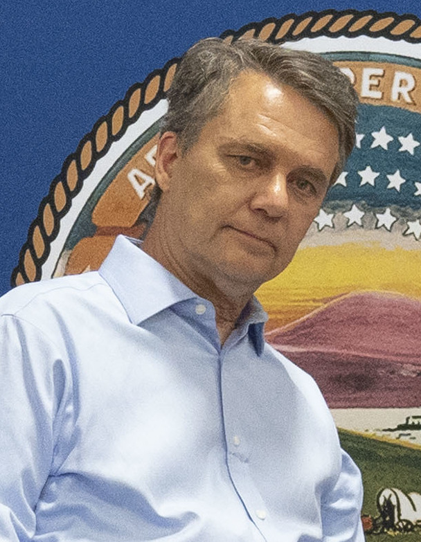 Kansas Governor Jeff Colyer, in a conversation as well as a question and answer session with U.S. Department of Agriculture (USDA) Secretary Sonny Perdue, participates at Kansas State University campus in Manhattan, Kansas May 30, 2018.